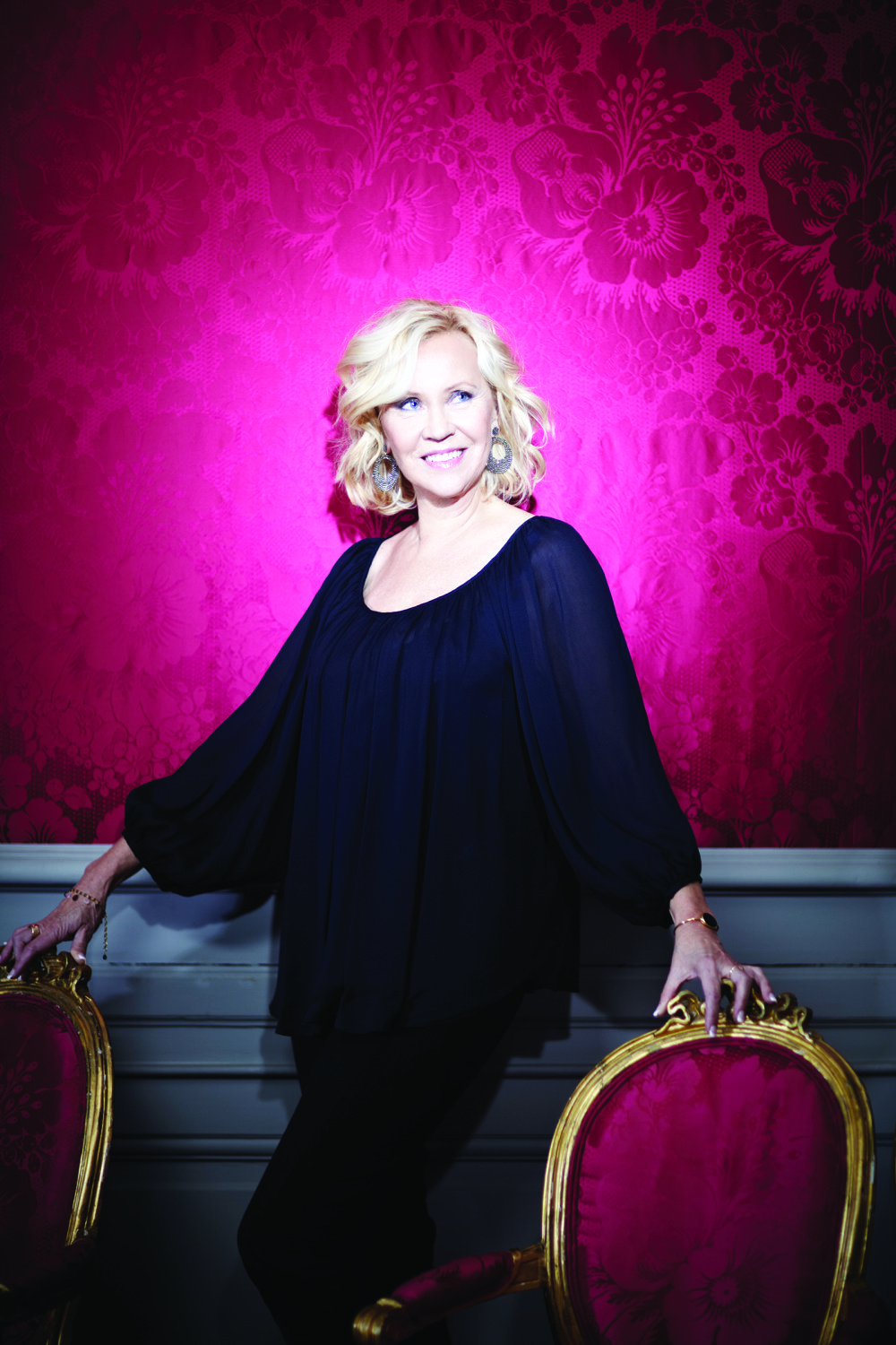 Press photo of Agnetha Fältskog in conjunction with Stockholm Pride 2013.